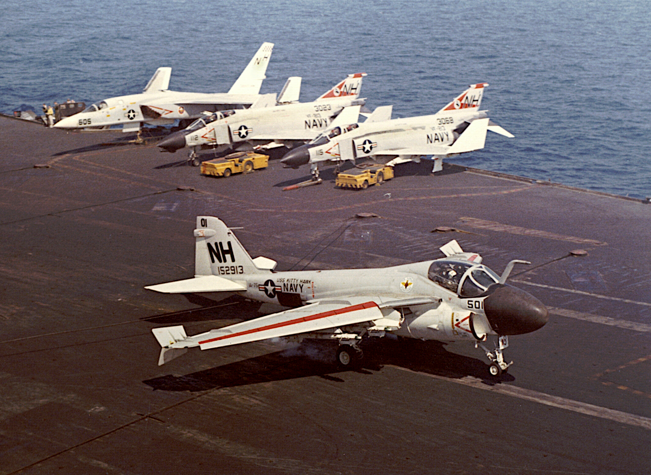 A U.S. Navy Grumman A-6A Intruder (BuNo 152913) from Attack Squadron VA-75 Sunday Punchers lands on the aircraft carrier USS Kitty Hawk (CVA-63) off Vietnam on 2 March 1968. In the background are two McDonnell F-4B Phantom II (BuNo 153023, 153068) from fighter squadron VF-213 Black Lions and a North American RA-5C Vigilante (BuNo 150831) from Heavy Reconnaissance Squadron RVAH-11 Checkertails. All aircraft were assigned to Attack Carrier Air Wing 11 (CVW-11) aboard the Kitty Hawk for a deployment to Vietnam from 18 November 1967 to 28 June 1968.